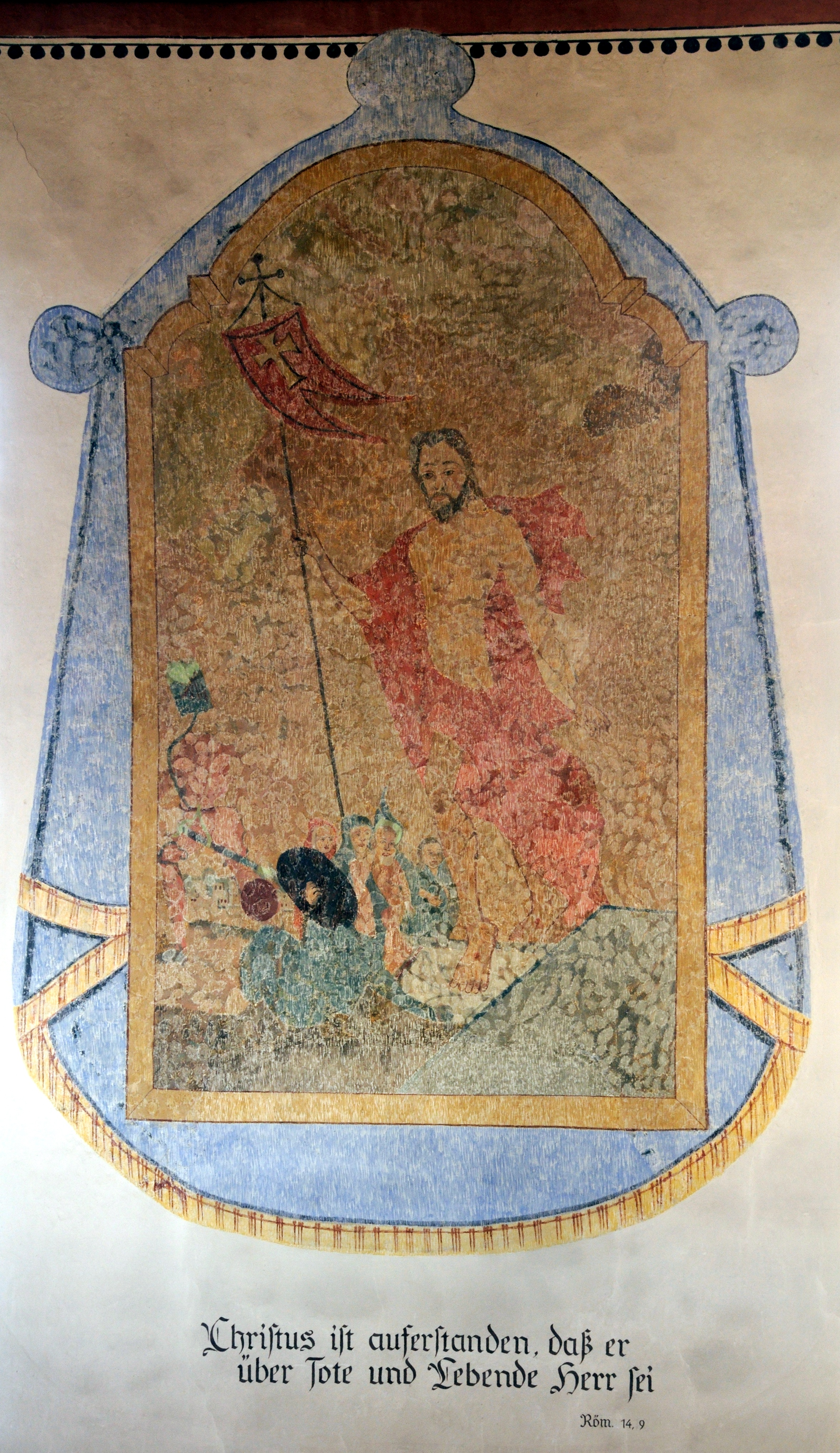 Kandern-Wollbach: Protestant Church (fesco)